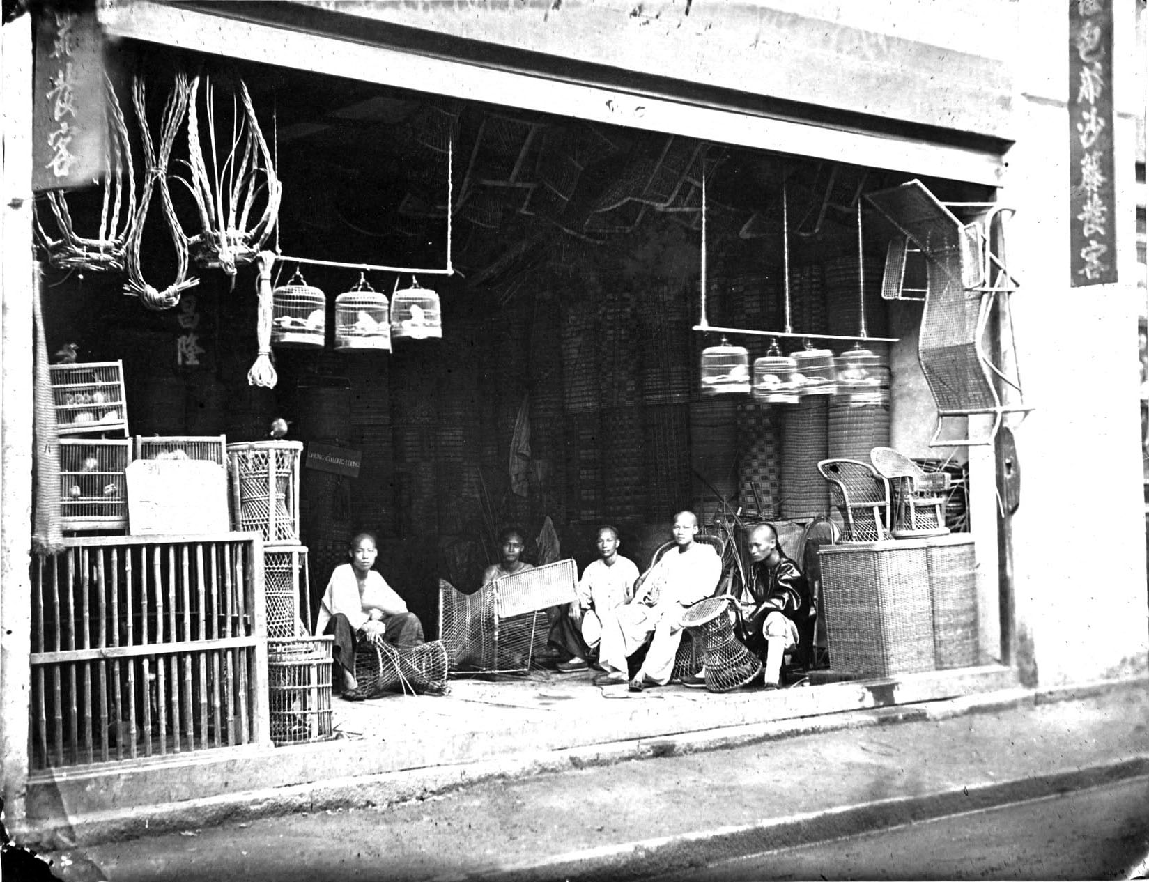 Photograph in From Afong, Photographer.